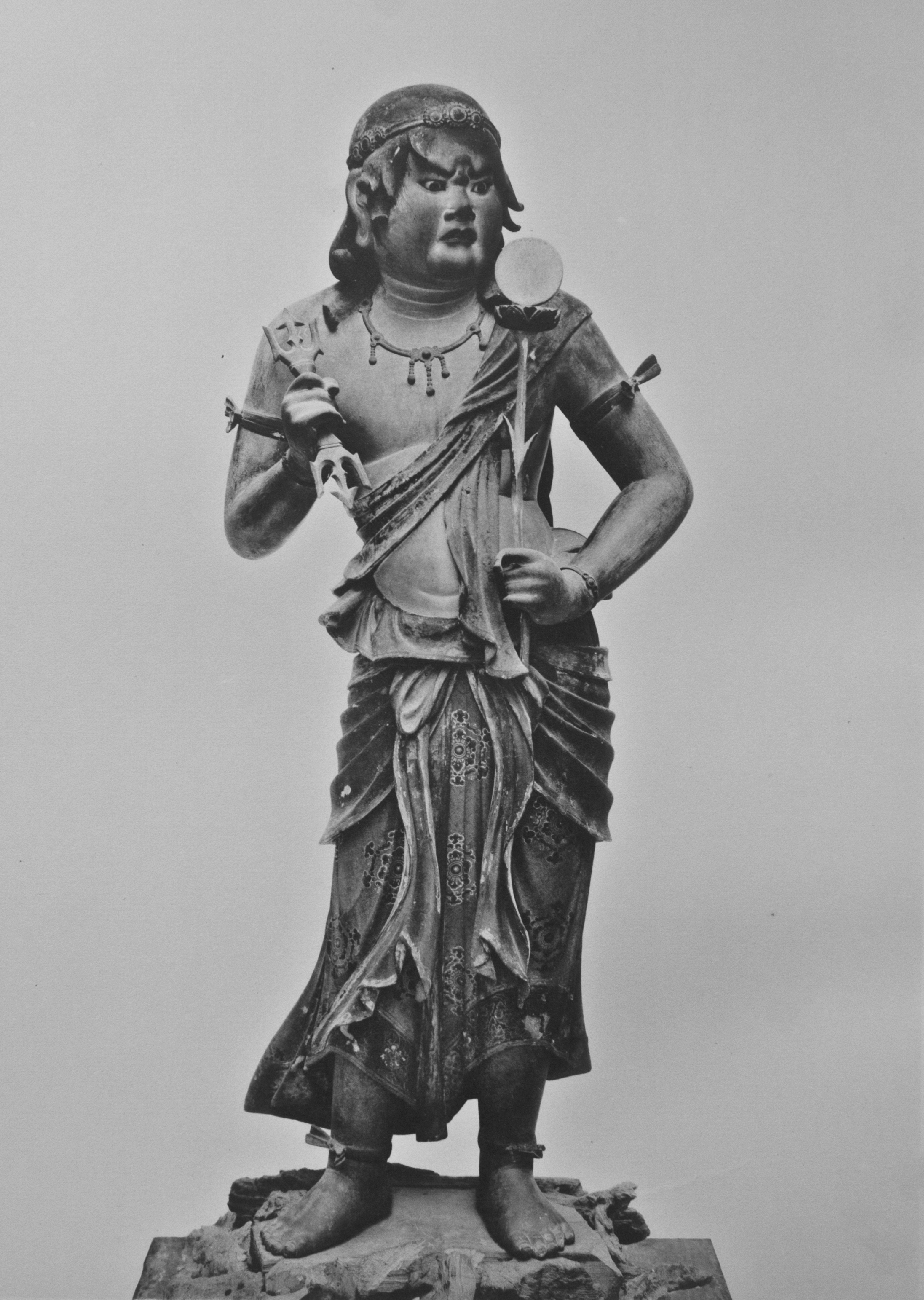 Kongobuji, Wakayama, Japan